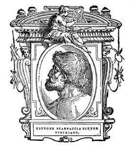 Illustratio from "Le Vite" by Giorgio Vasari, edition of 1568. For the artist portrayed see filename